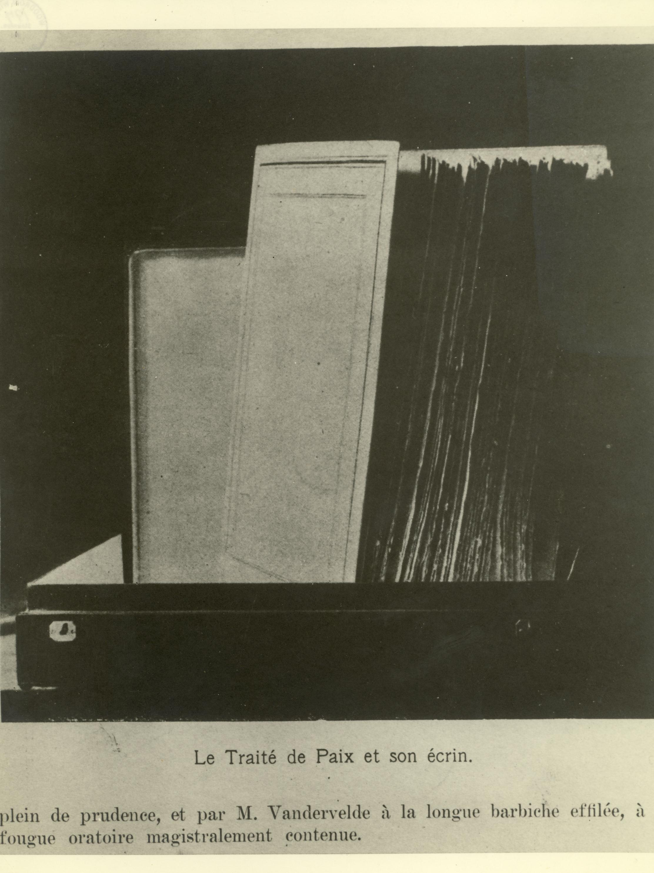 Local Accession Number: 197 Description: French newspaper photograph of the draft of the peace treaty and its box. Photographer: Unknown Source: Unknown Size: 8x10 Medium: Print, Black and White Date: 1919?